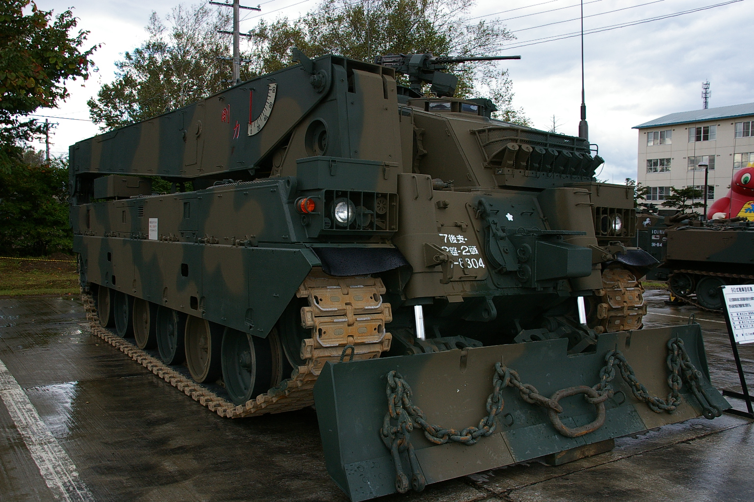 JGSDF type90 ARV.